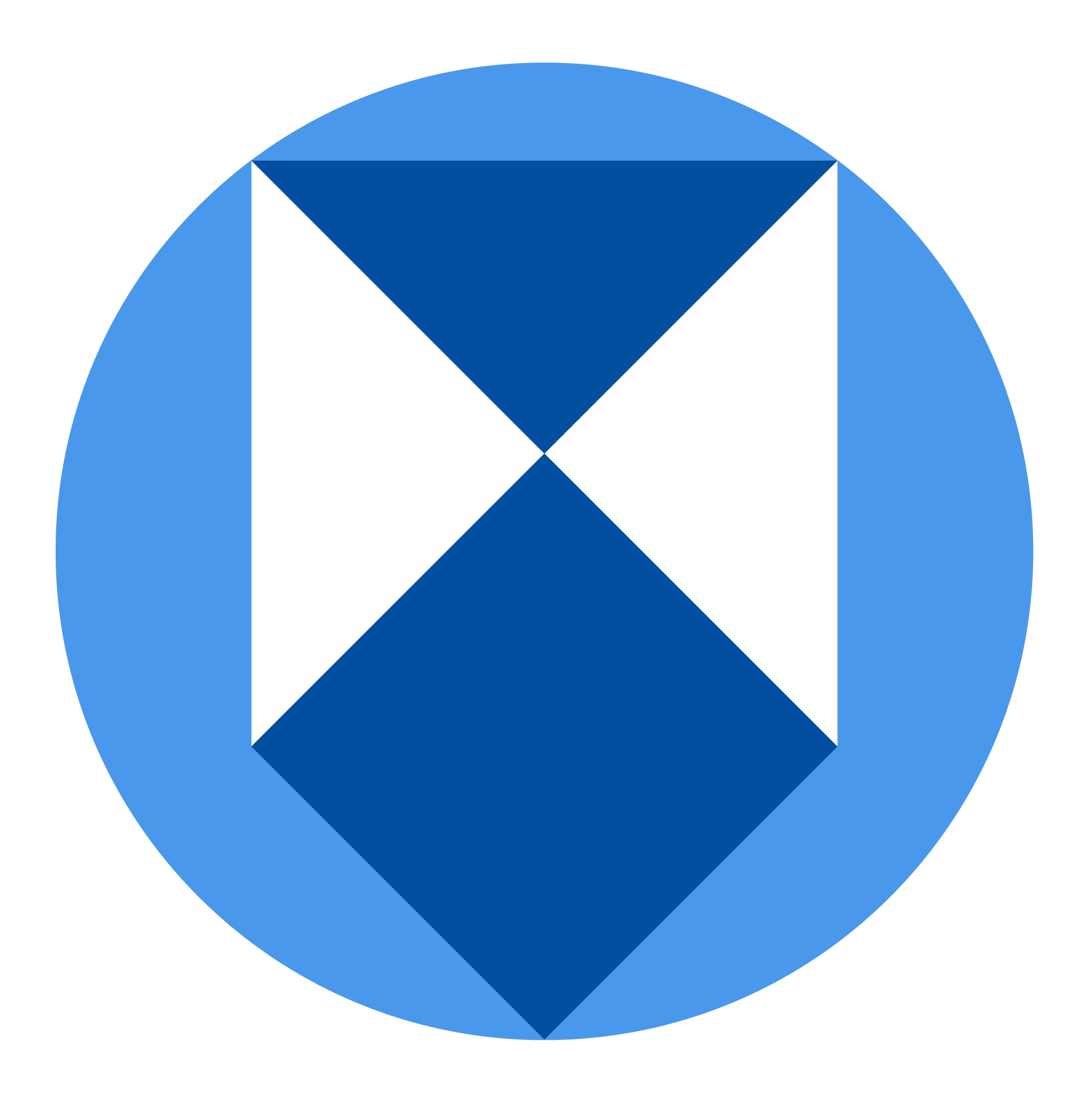 The logo of the Blue Shield organisation: when used by national committees or the international board it should be used with the name of the committee / Board.